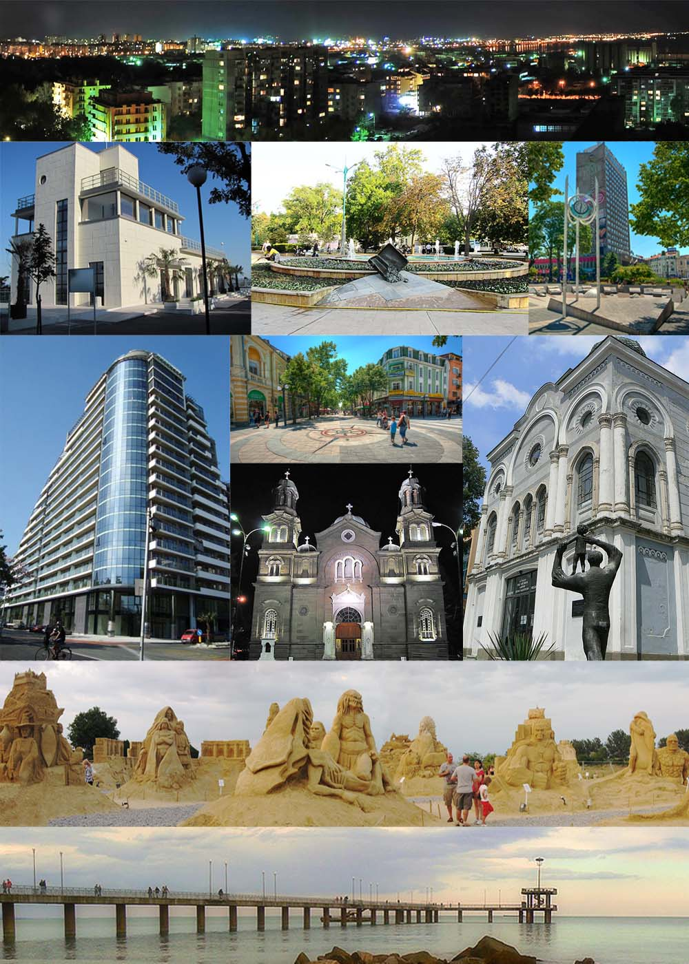 Collage of the landmarks of Burgas, Bulgaria